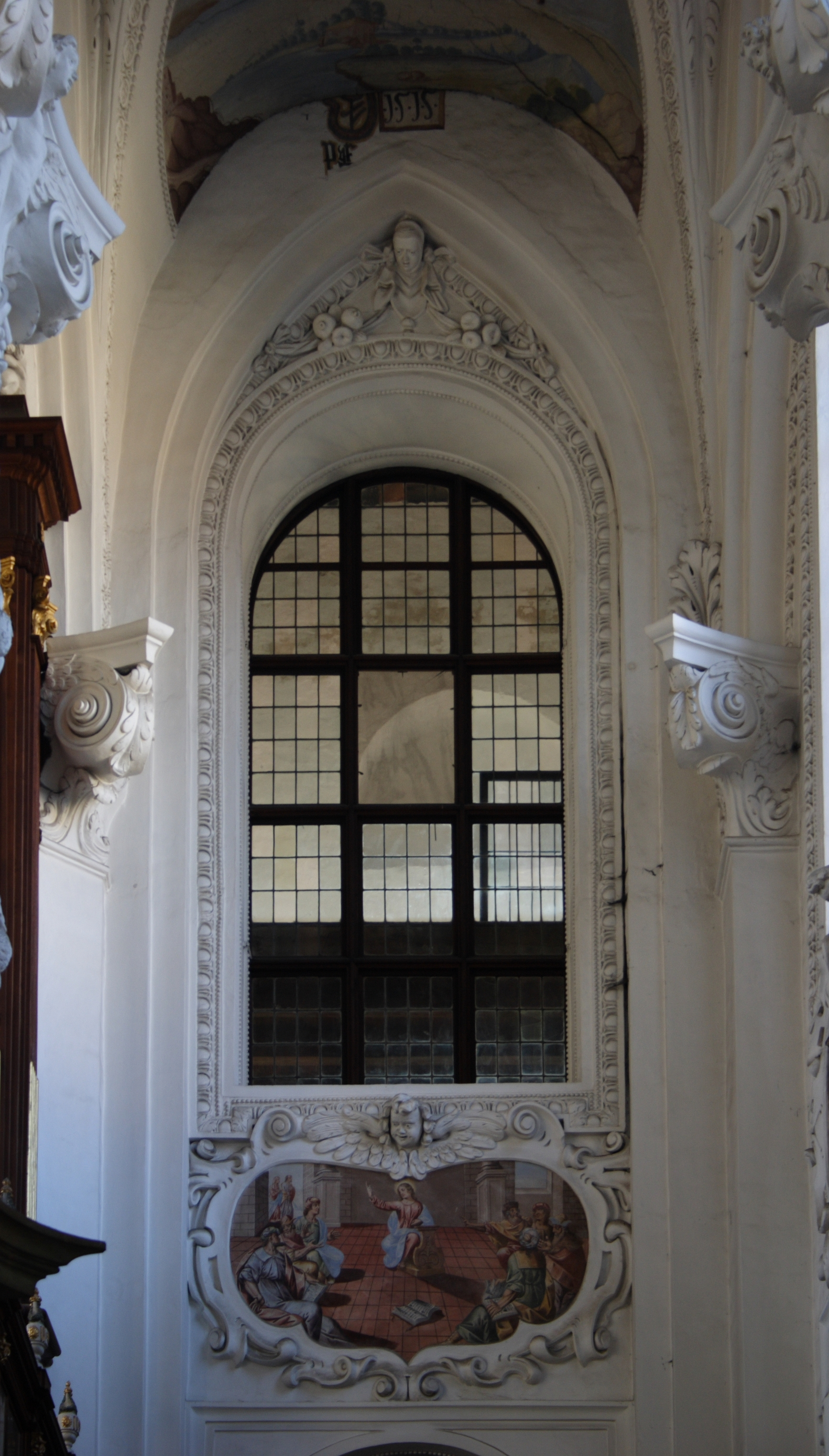 Side aisle of the Neuzelle abbey church.